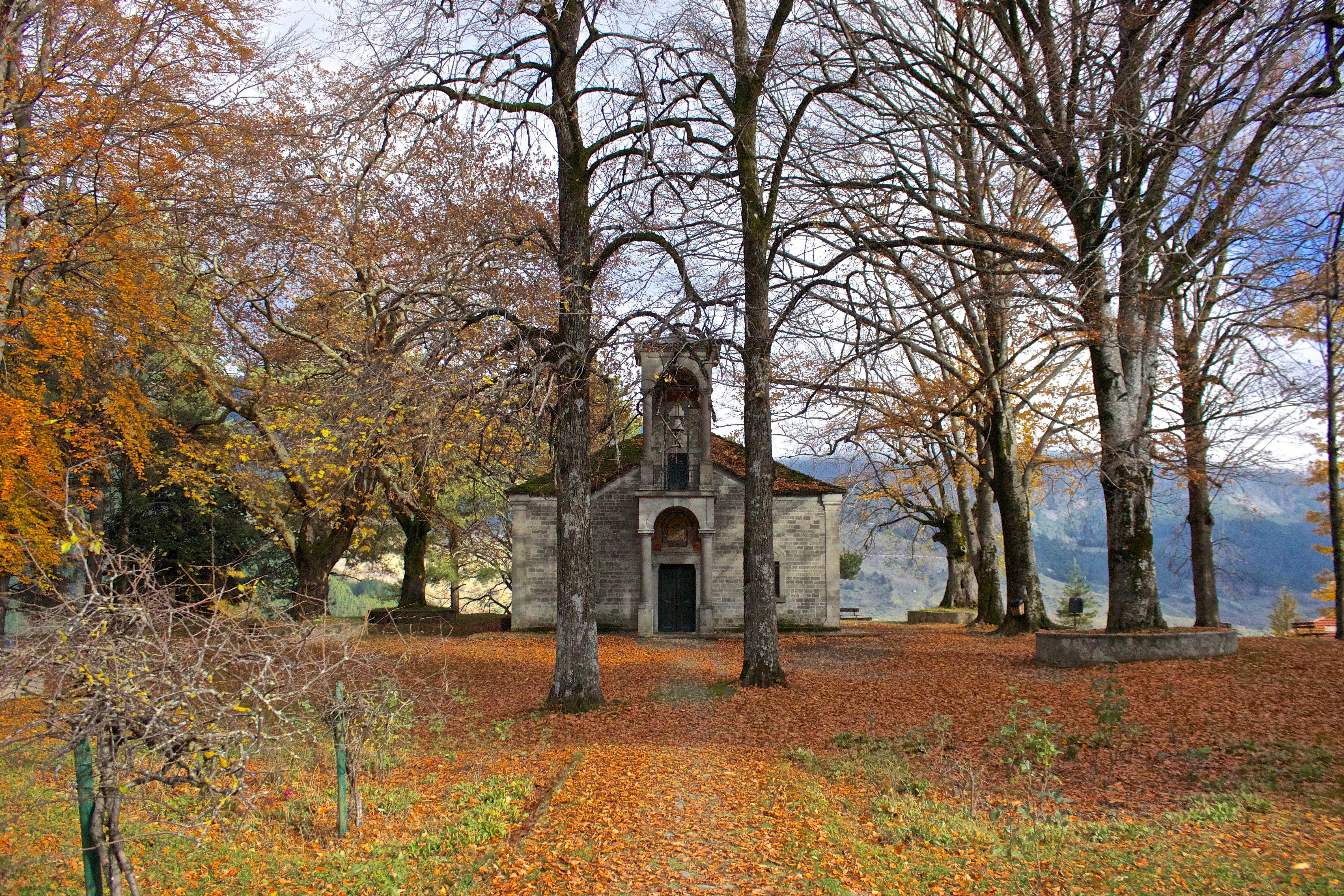 This is a photography of Natura 2000 protected area with ID GR2130006